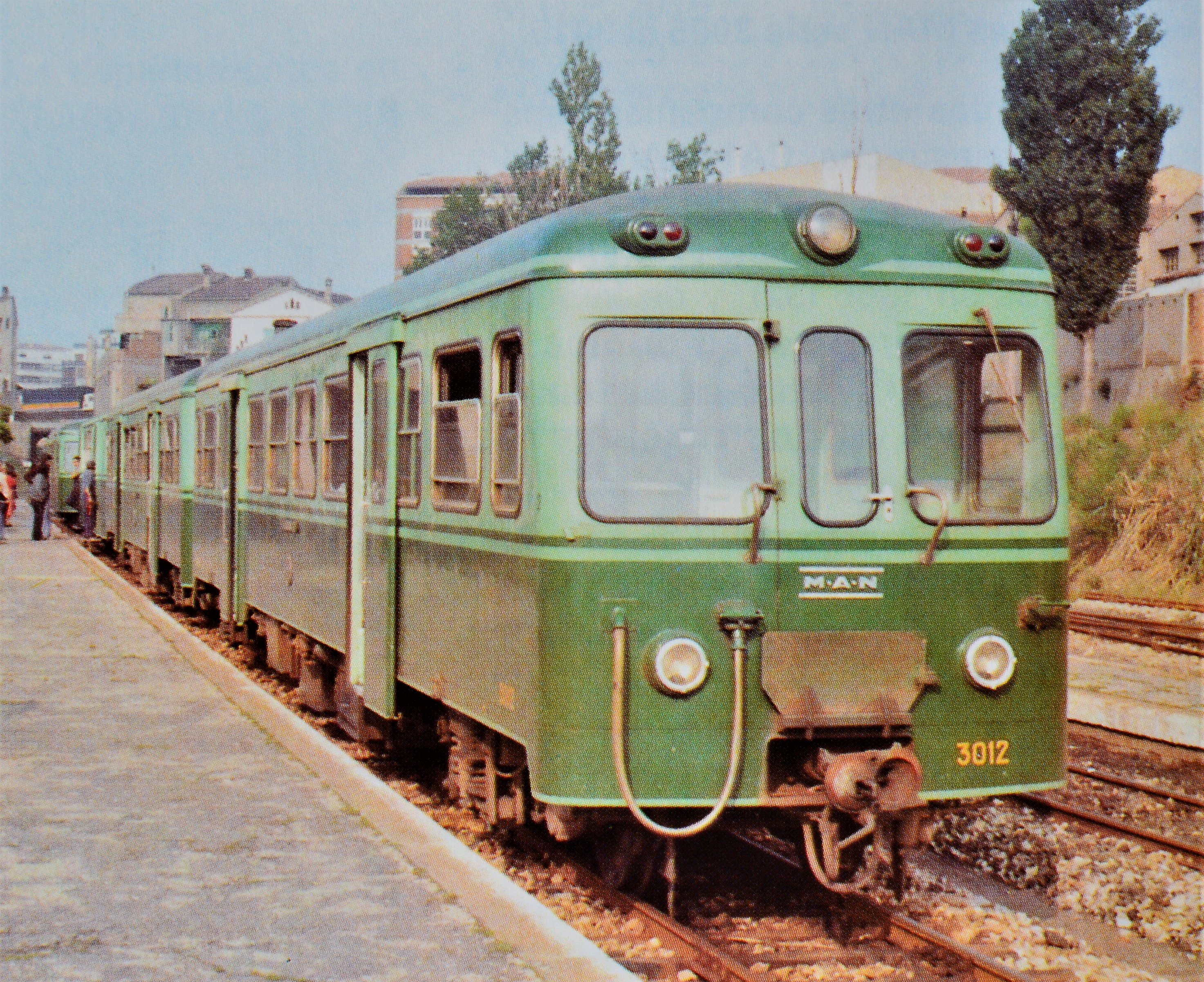 Diesel railcar MAN numer 3012 of the Compañía General de los Ferrocarriles Catalanes, in the station of Manresa Alta.